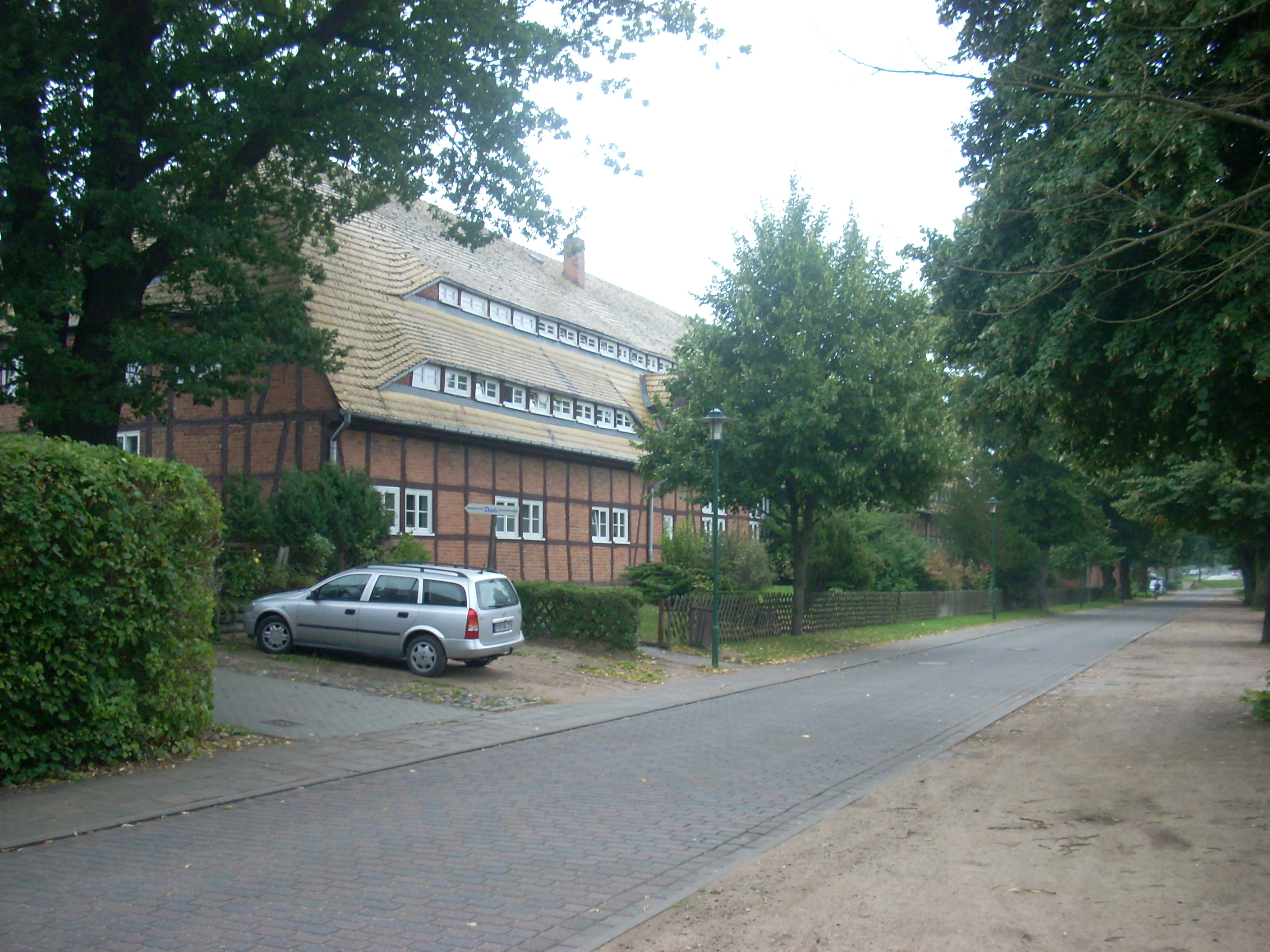 Barn of the monastery in Dobbertin